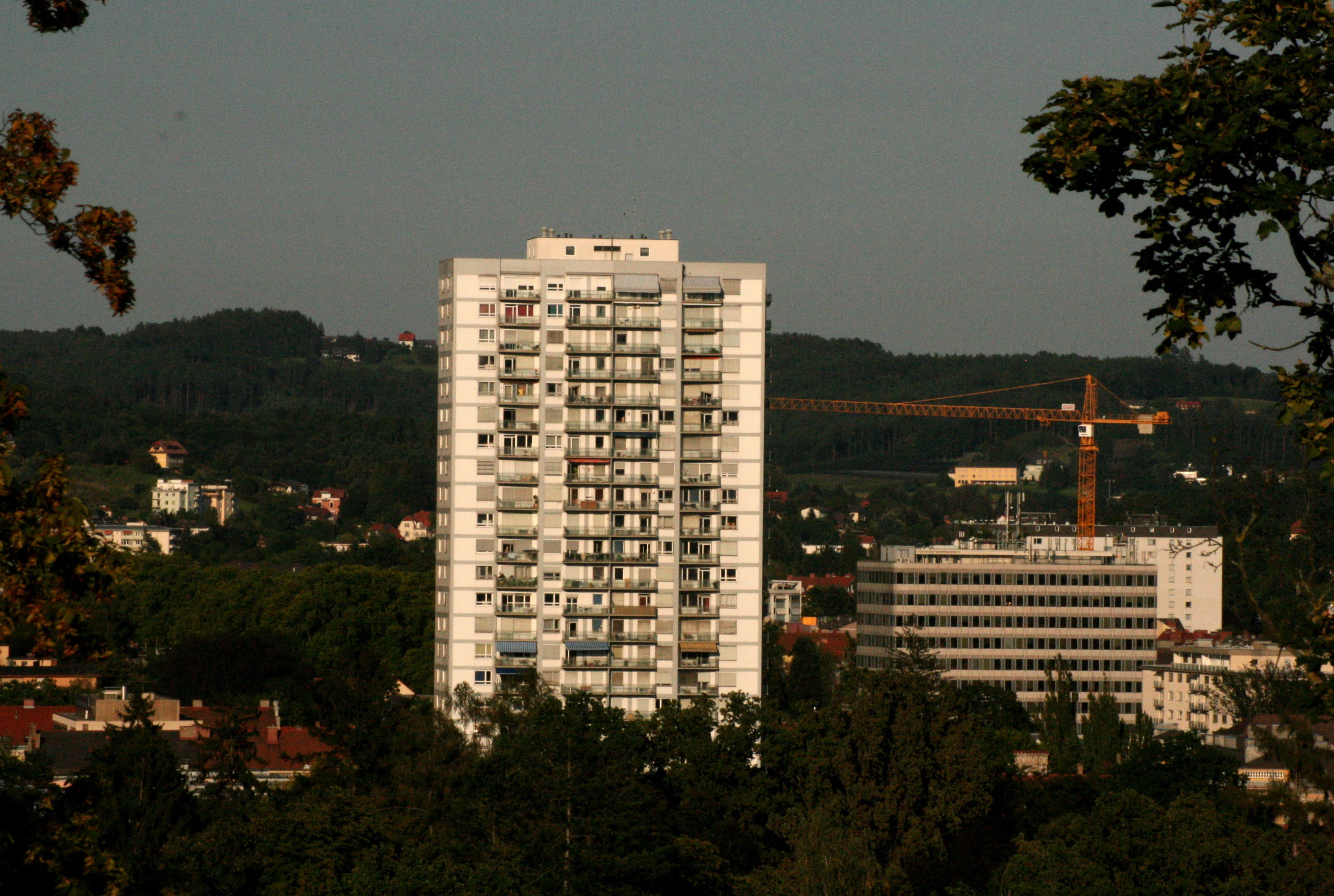 Elisabethhochhaus in Graz, Austria, Europe